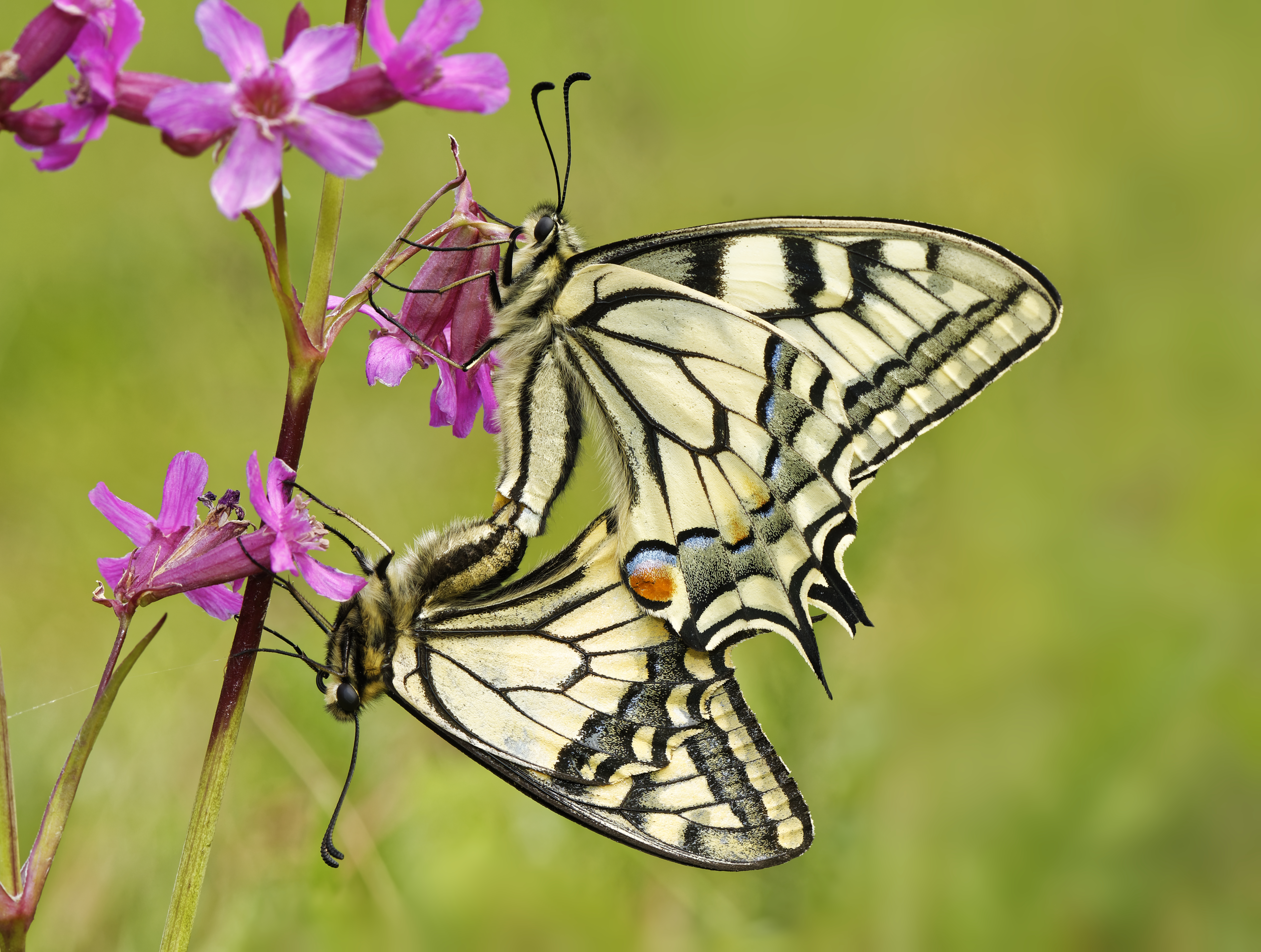 Swallowtail (Papilio machaon) butterflies mating. Nötön-Åråsviken Nature Reseve outside Kristinehamn, Sweden.